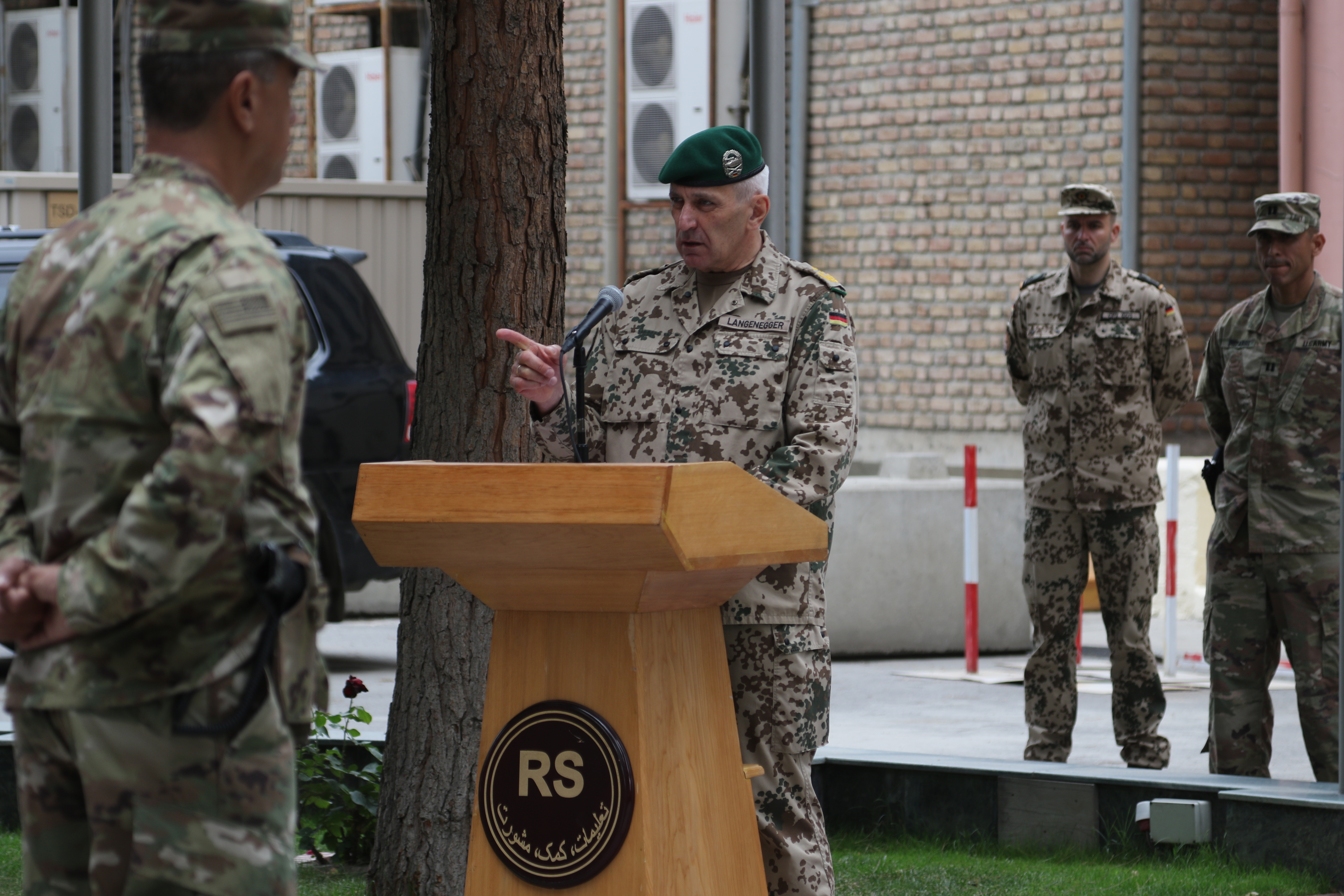 COS LG Johann Langenegger at Medal Parade